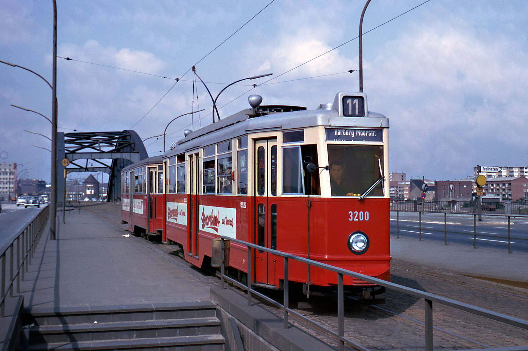 Tram in Hamburg